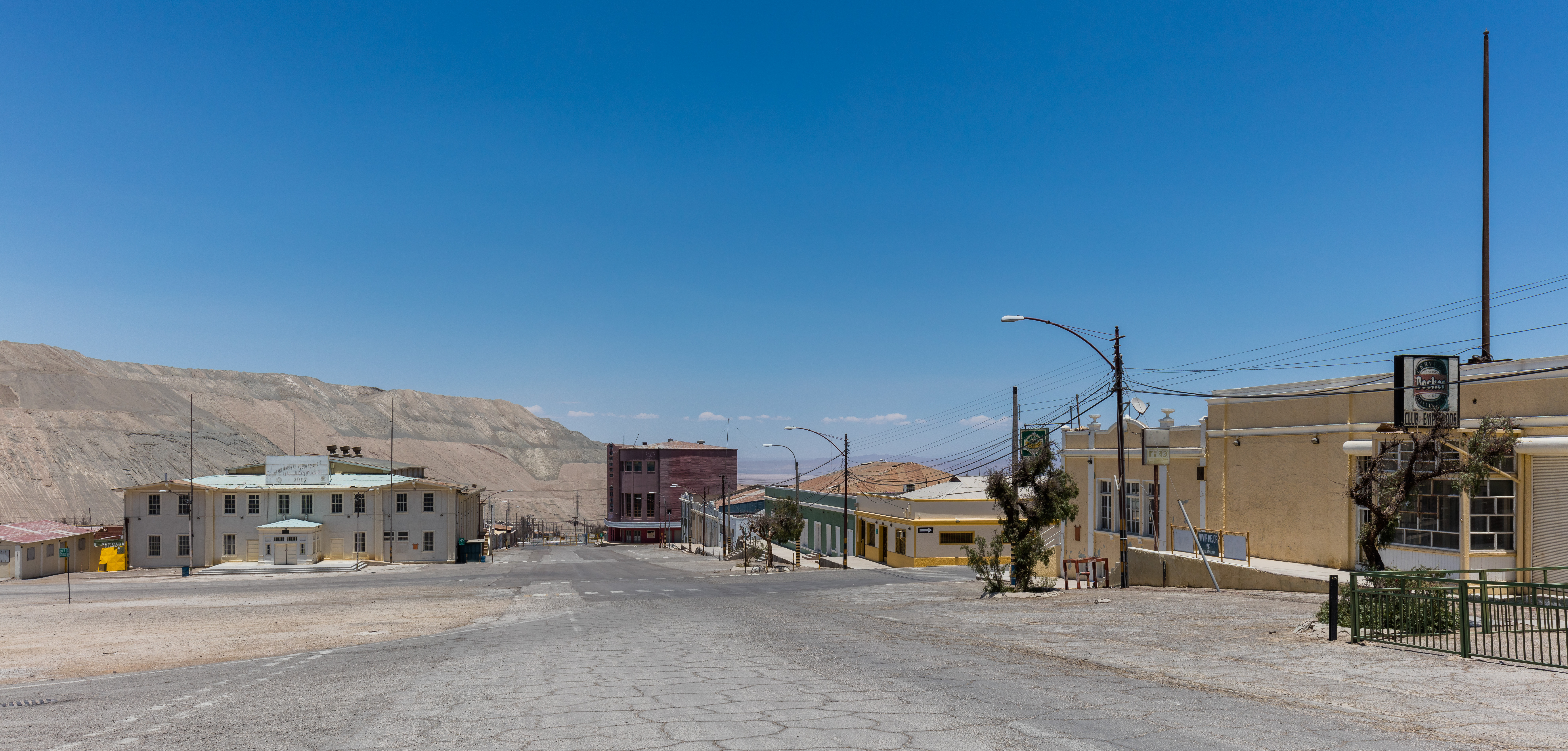 Chuquicamata town, Calama, Chile